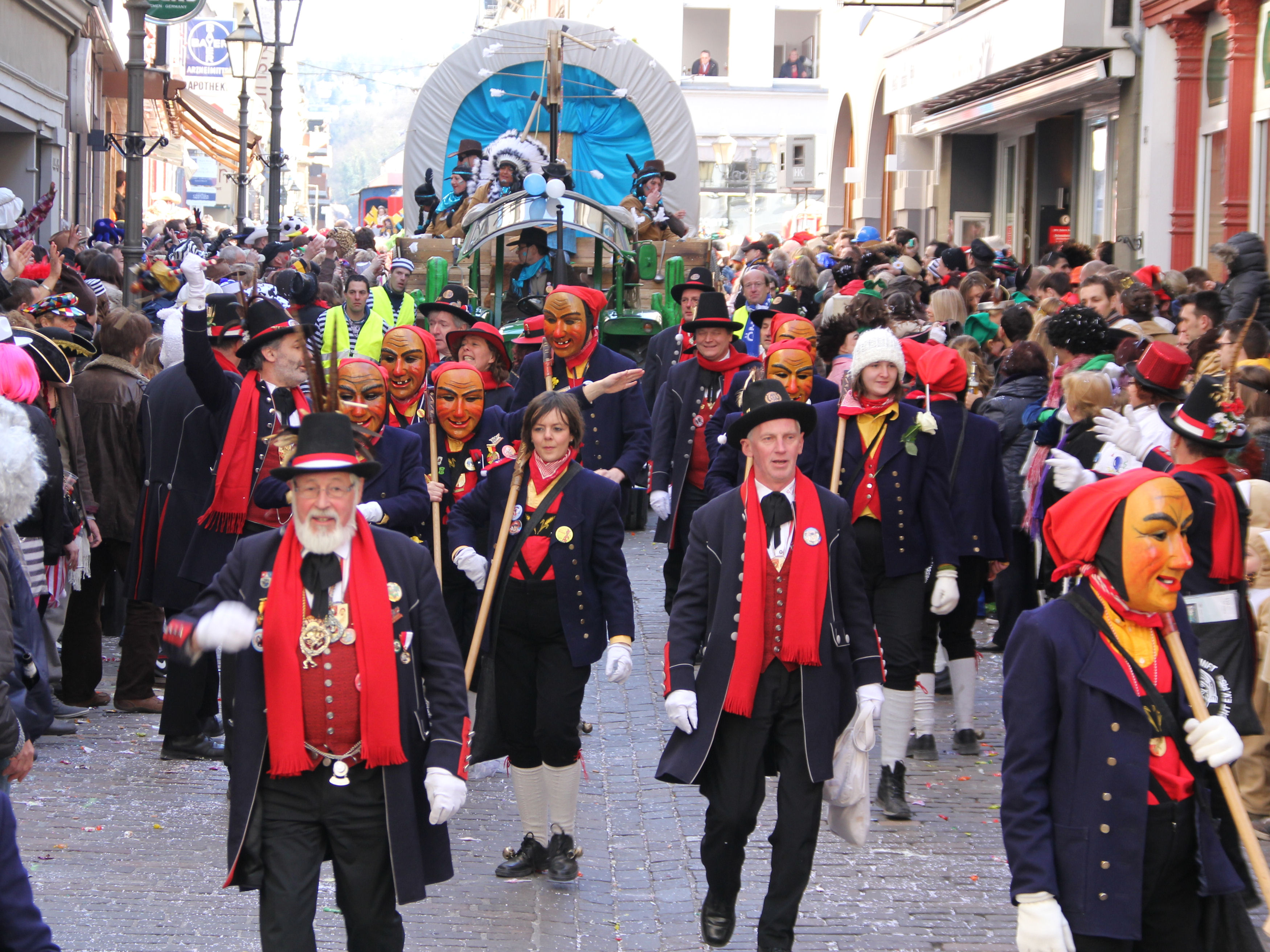 Carnival in Koblenz